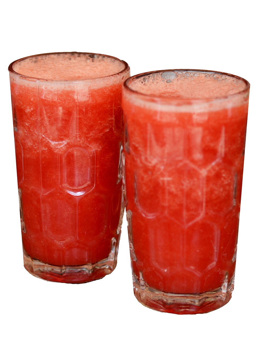 Watermelon Juice